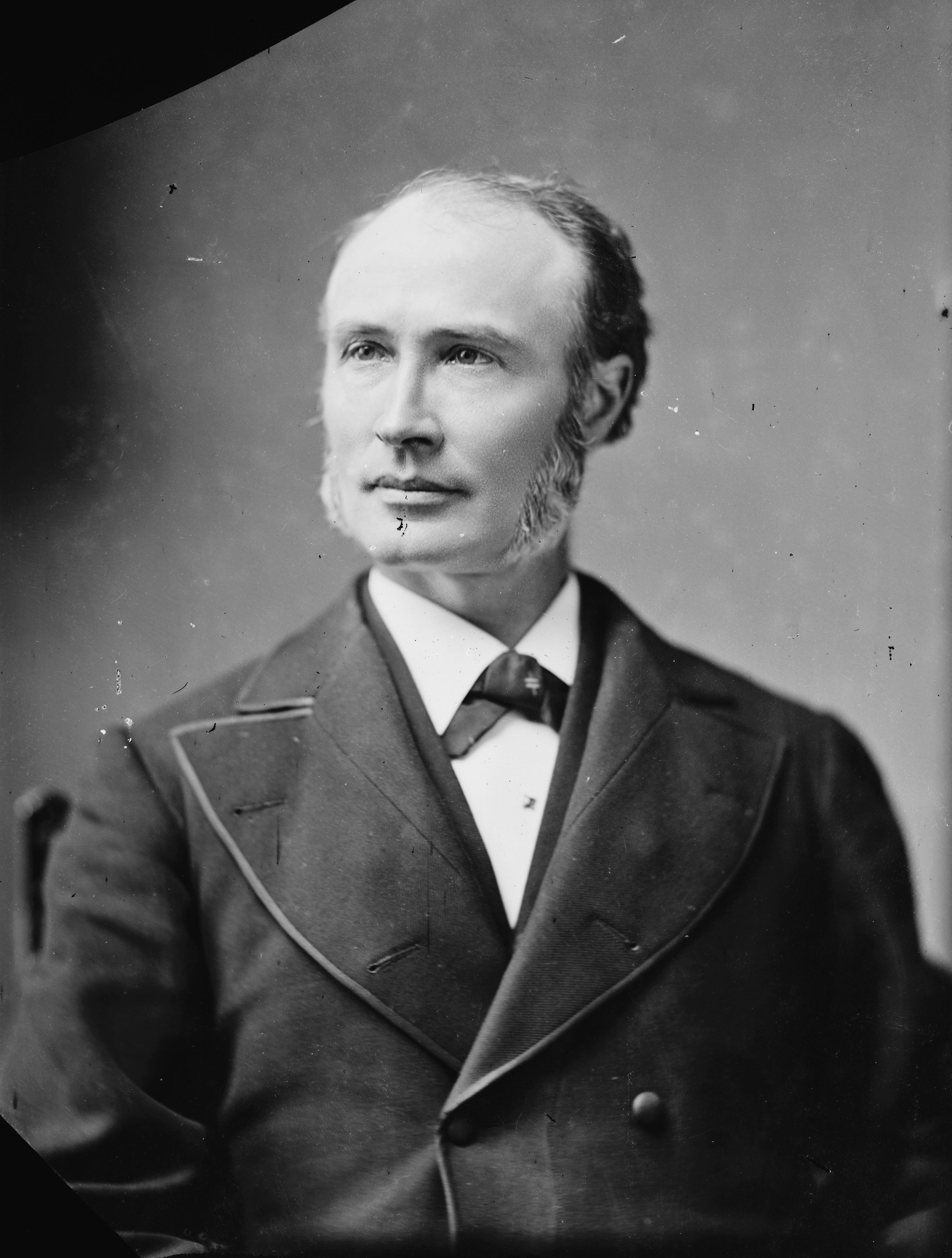 William Claflin. Library of Congress description: "Claflin, Hon. Wm of Mass"